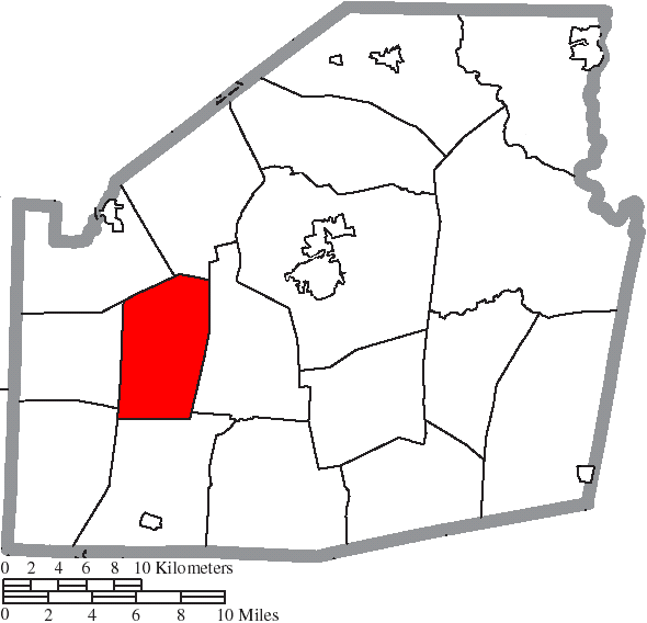 Map of the municipal and township boundaries of Highland County, Ohio, United States, as of the 2000 census, with the location of Hamer Township highlighted. Township borders are shown only in unincorporated areas in order to differentiate incorporated and unincorporated areas more clearly.